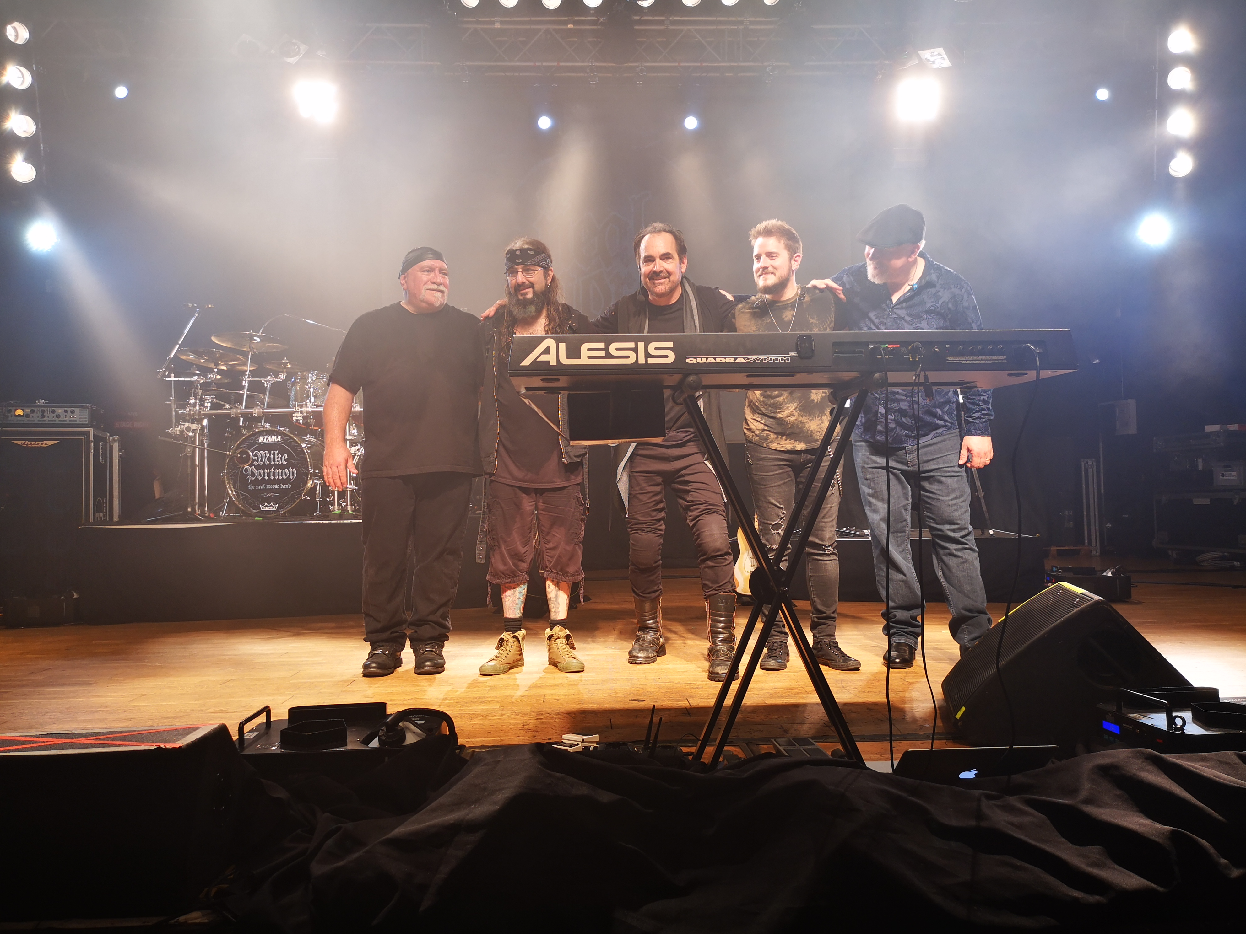 The Neal Morse Band at the end of their concert at Live Club, Trezzo sull'Adda, Italy, on April 12th, 2019